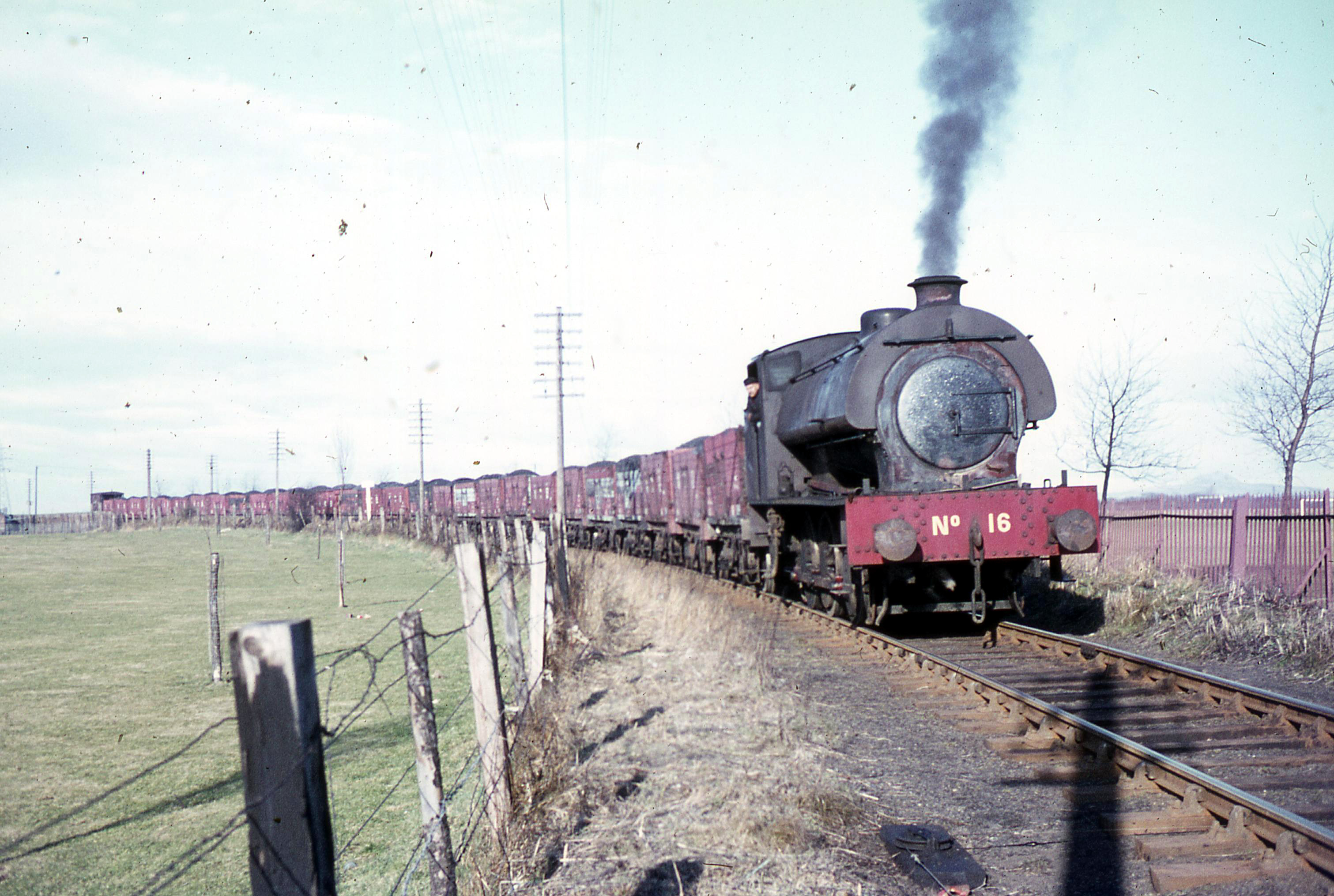 Coal train hauled by saddle tank locomotive No16 pictured near East Wemyss in Fife, Scotland